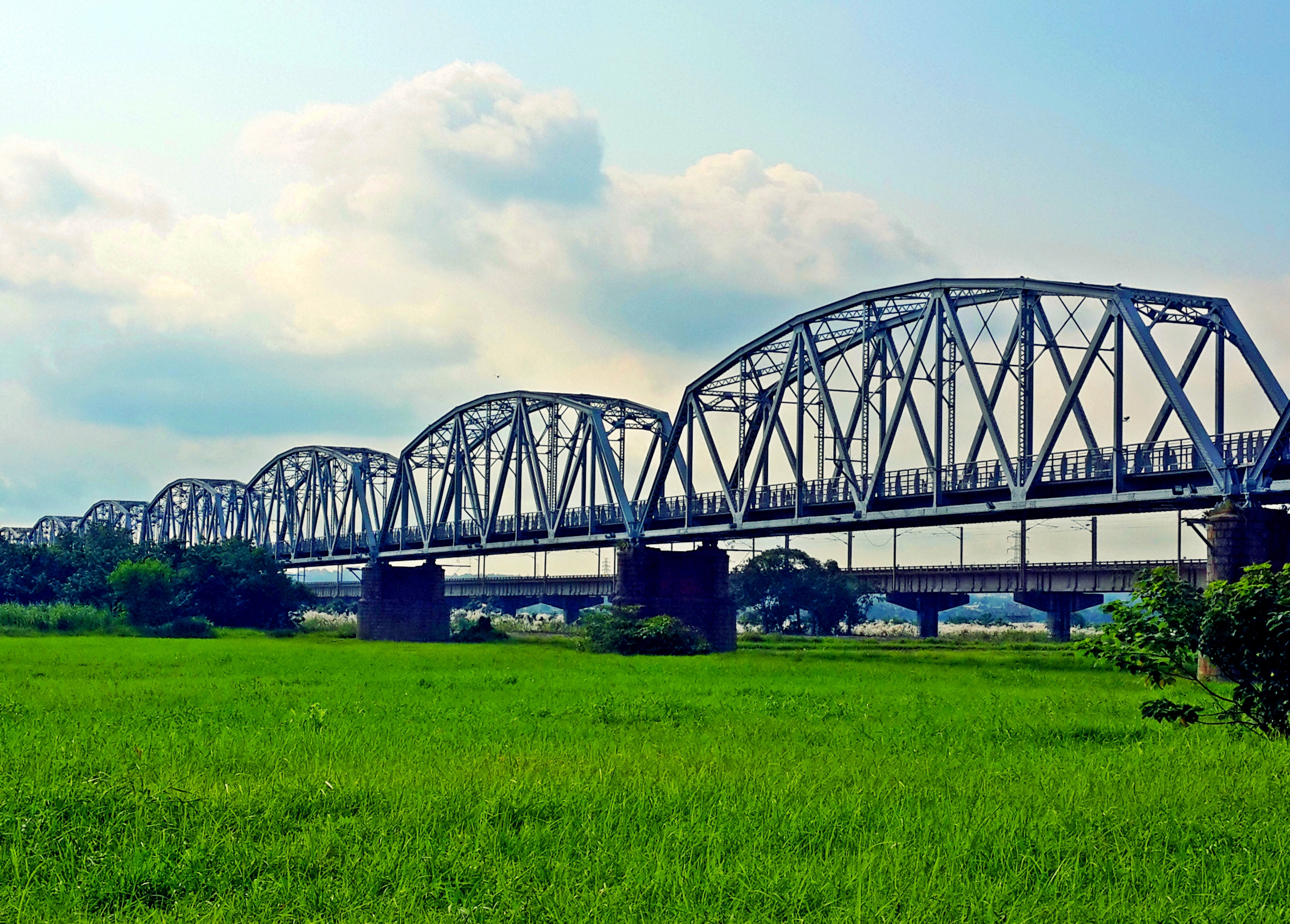 The Kaohsiun-Pingtung Old Bridge was built by the Japanese engineer Ilida Toyozi and completed in 1913. A single-track railway, it was the longest railway bridge in Asia at the time. A century later, it was revitalized and renovated by the Municipal Government in a line with the principle of "not losing any original components", producing the Old Railway Bridge Hanging Trail, and providing a viewing platform on which tourists could relax. As well as being able to appreciate the beauty of the old railway bridge, the jade-green wetlands of Gaoping River and the beautiful rivers and mountains, it displays a multi-layered, lively beauty when the sun is setting.